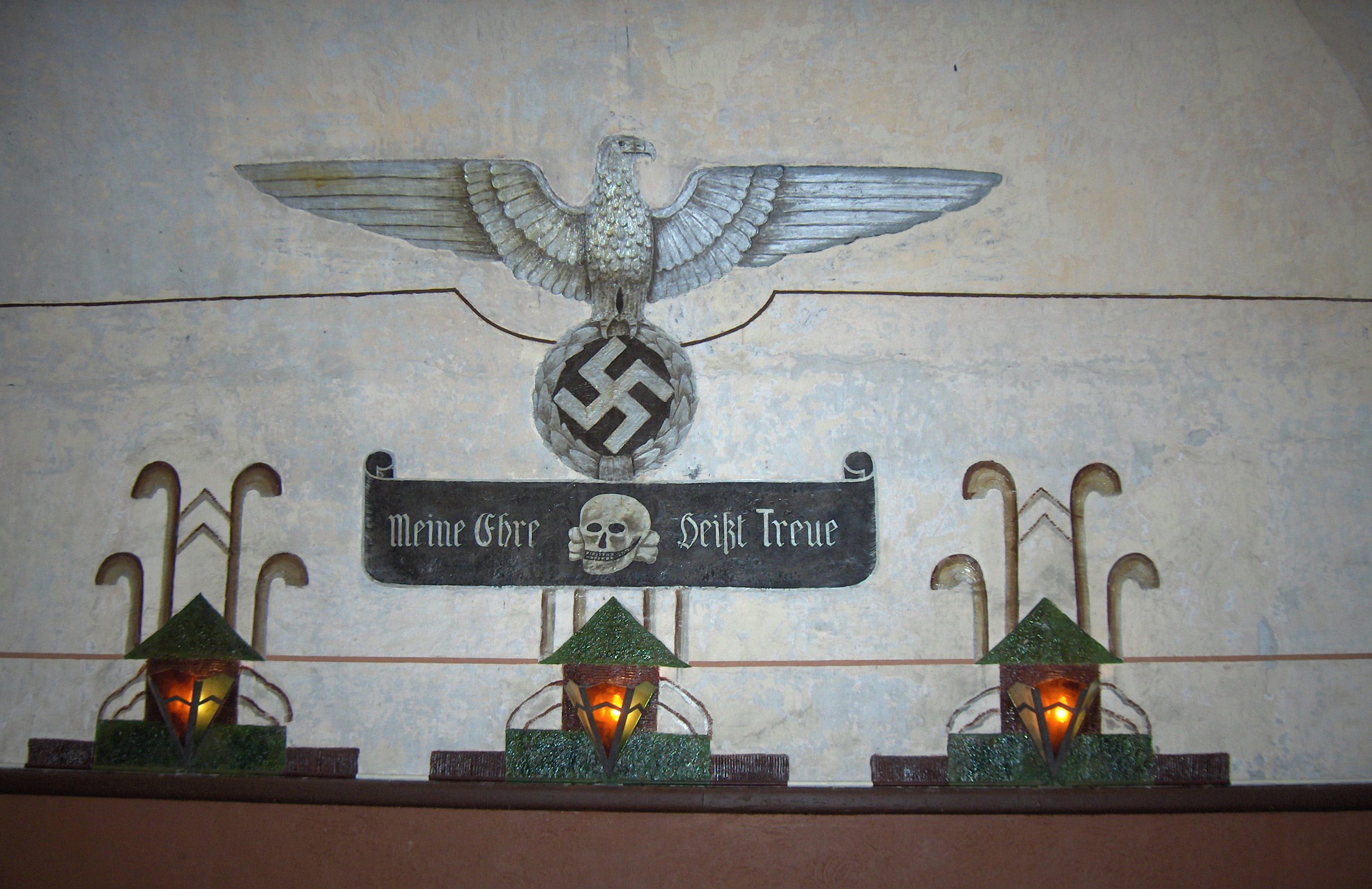 Motto of the Waffen-SS on a wall of the Fort van Breendonk, Belgium